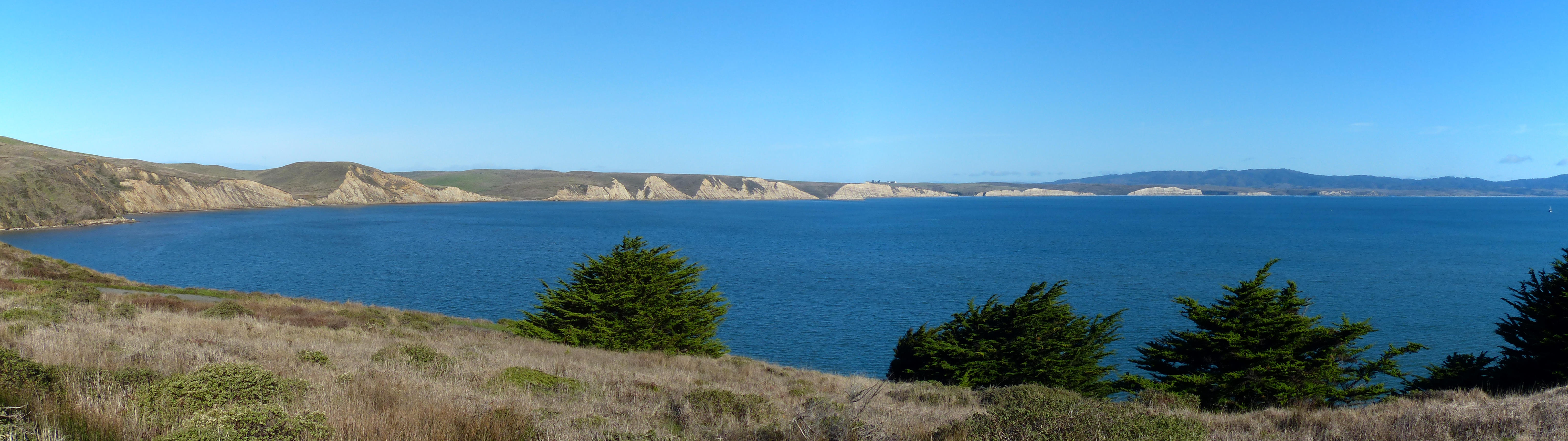 Panorama of Drakes Bay from Elephant Seal Outlook trail